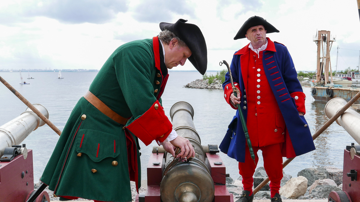 Artillery of ship «Poltava», June 2015